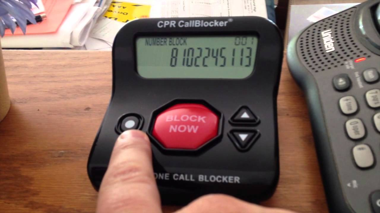 Image shows landline call blocker in use.